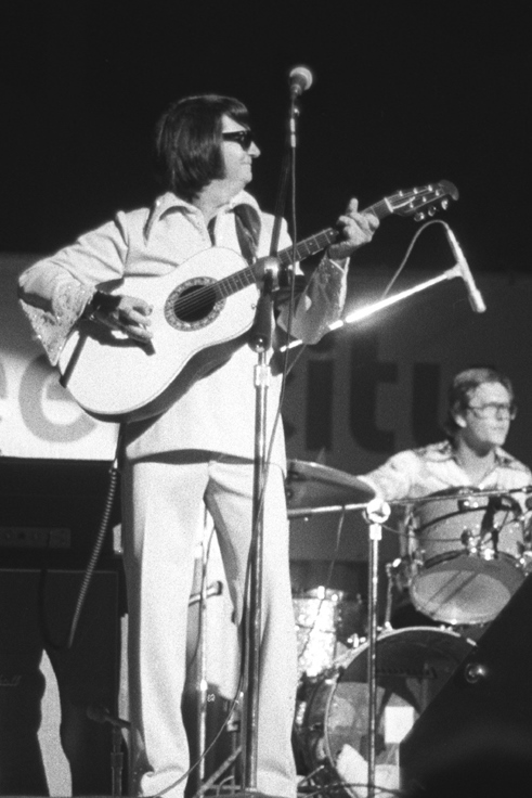 Photo of Roy Orbison.